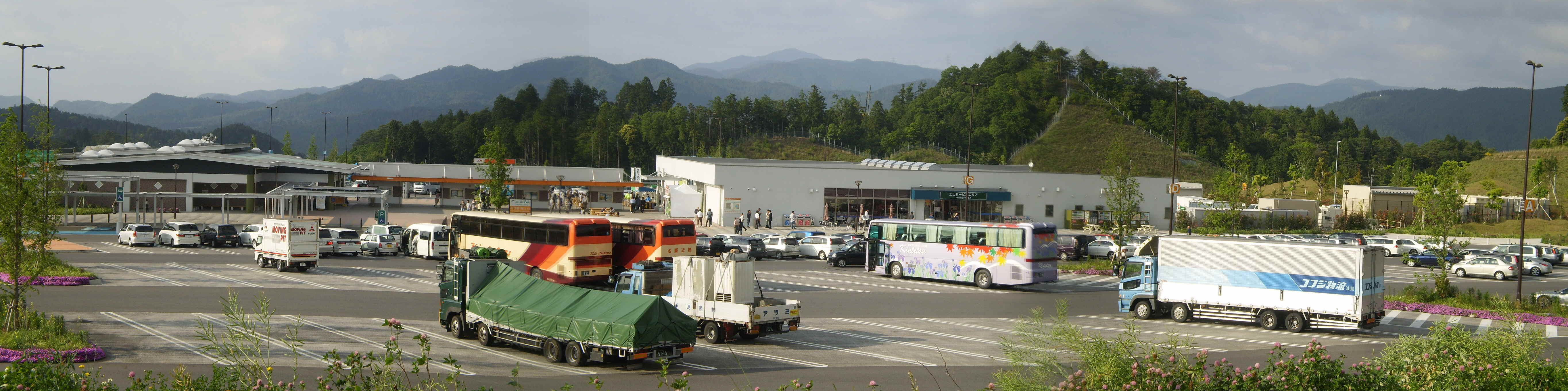 Tsuchiyama Service area of Shin-Meishin Expressway. I took this image at Minamitsuchiyama Tsuchiyama-cho Koka City Shiga Pref., Japan.